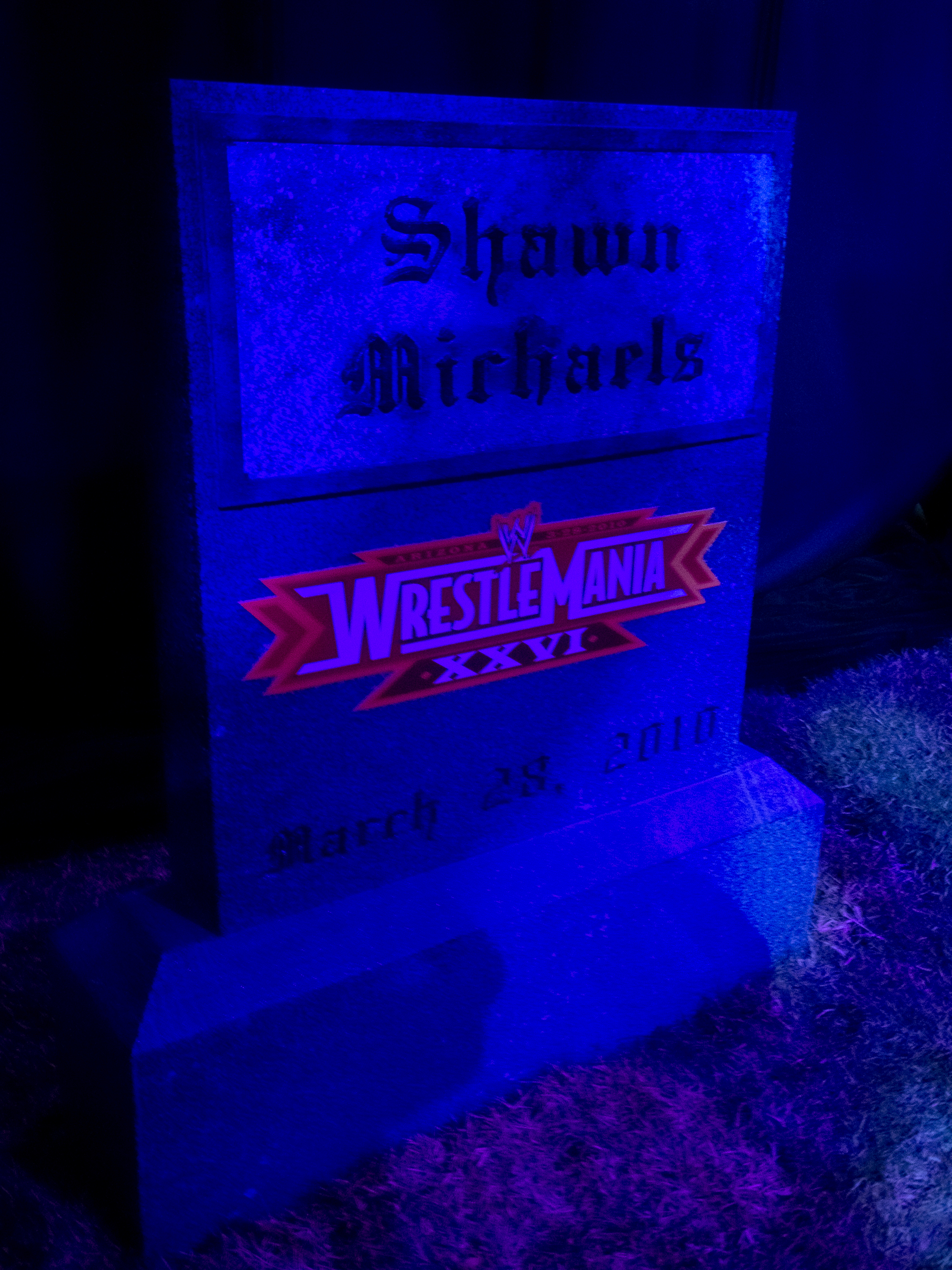 The Undertaker's Graveyard @ Axxess